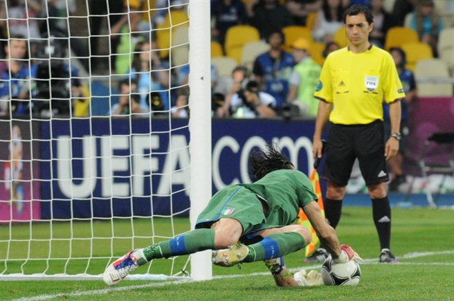 Gianluigi Buffon at Euro 2012 match against England